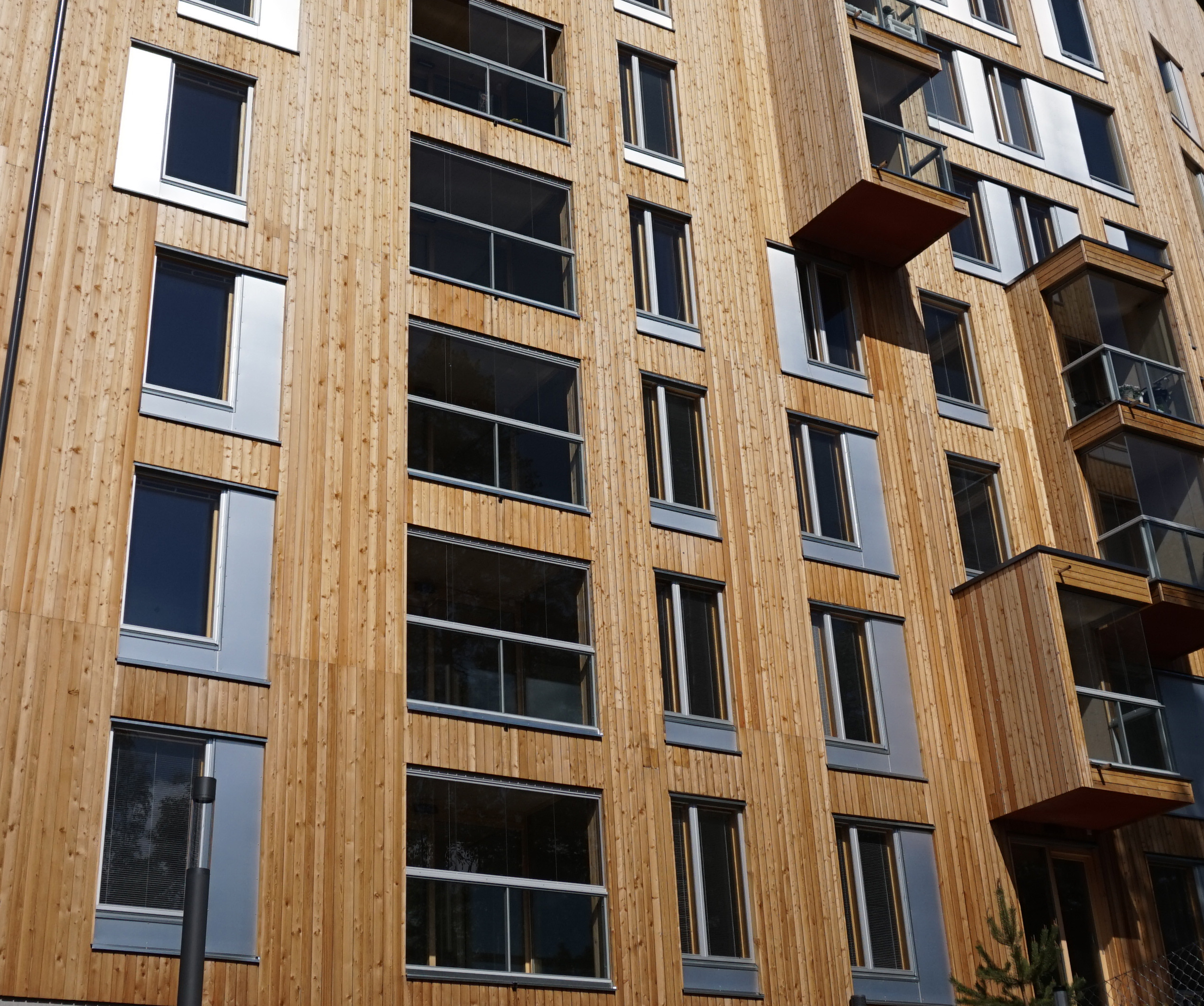 Wall of a wooden apartment building Puukuokka 1 in Kuokkala, Jyväskylä.This photograph was taken with a Sony ILCE-5000